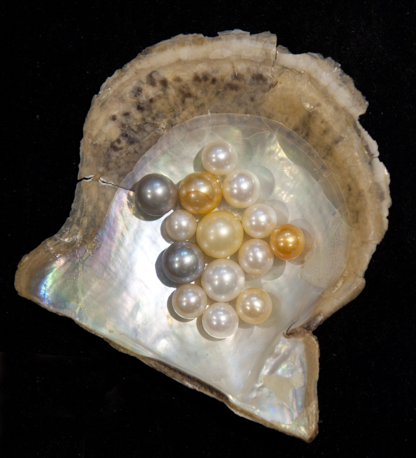 Variety of pearls in an oister clam